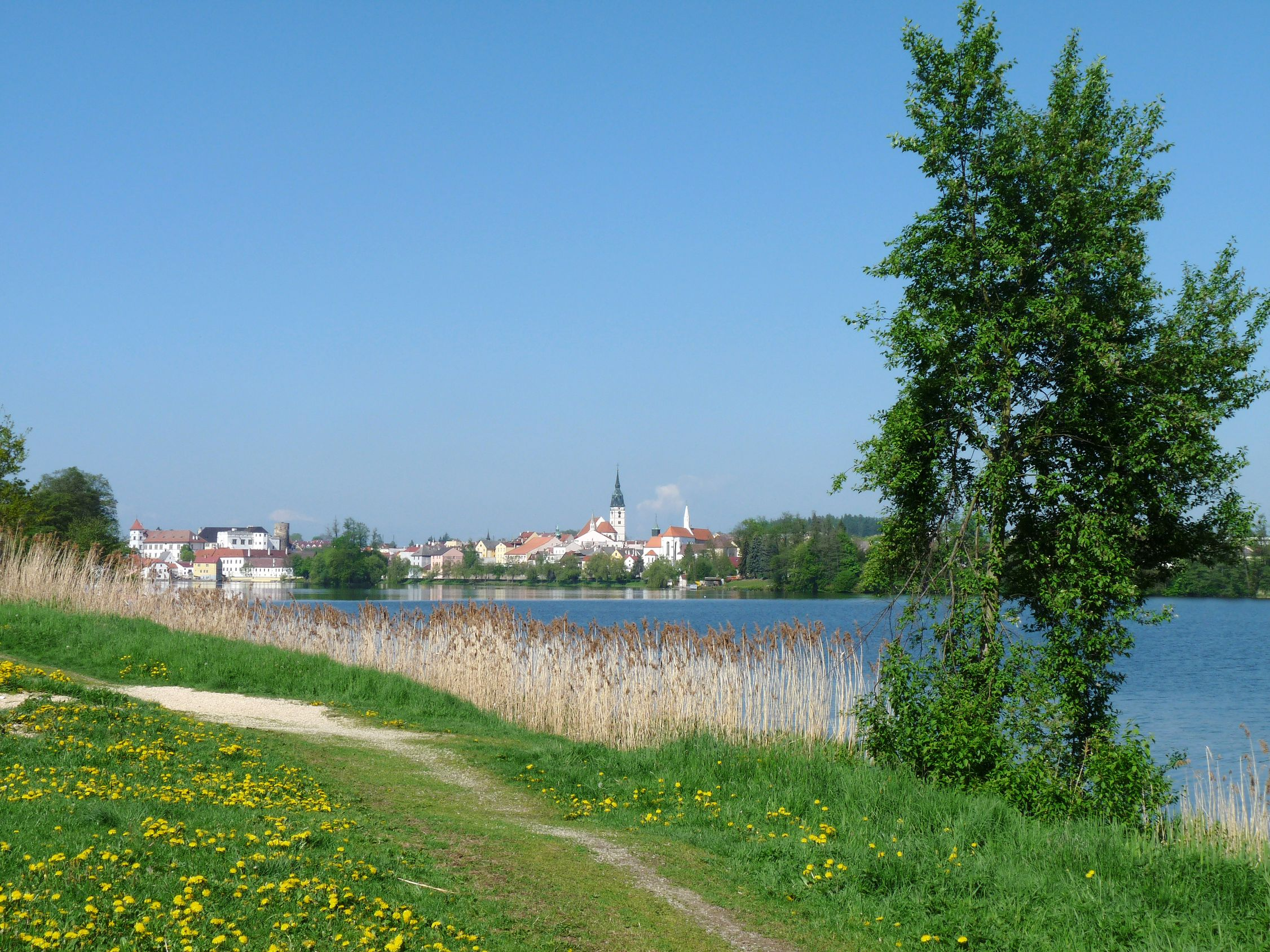 View of the town of Jindřichův Hradec, South Bohemian Region, Czech Republic, over Vajgar Pond